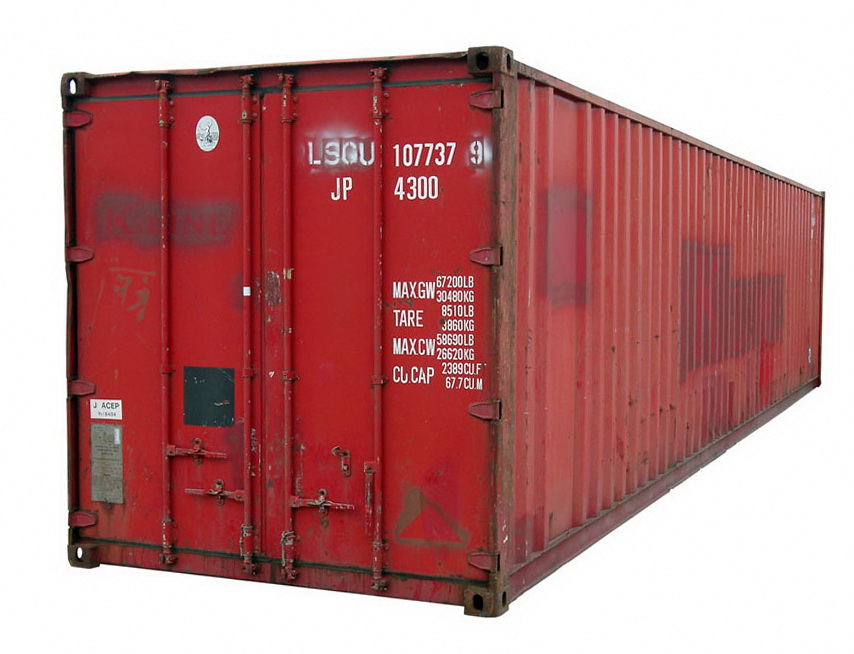 Red Shipping container of Lorenzo Shipping Corporation